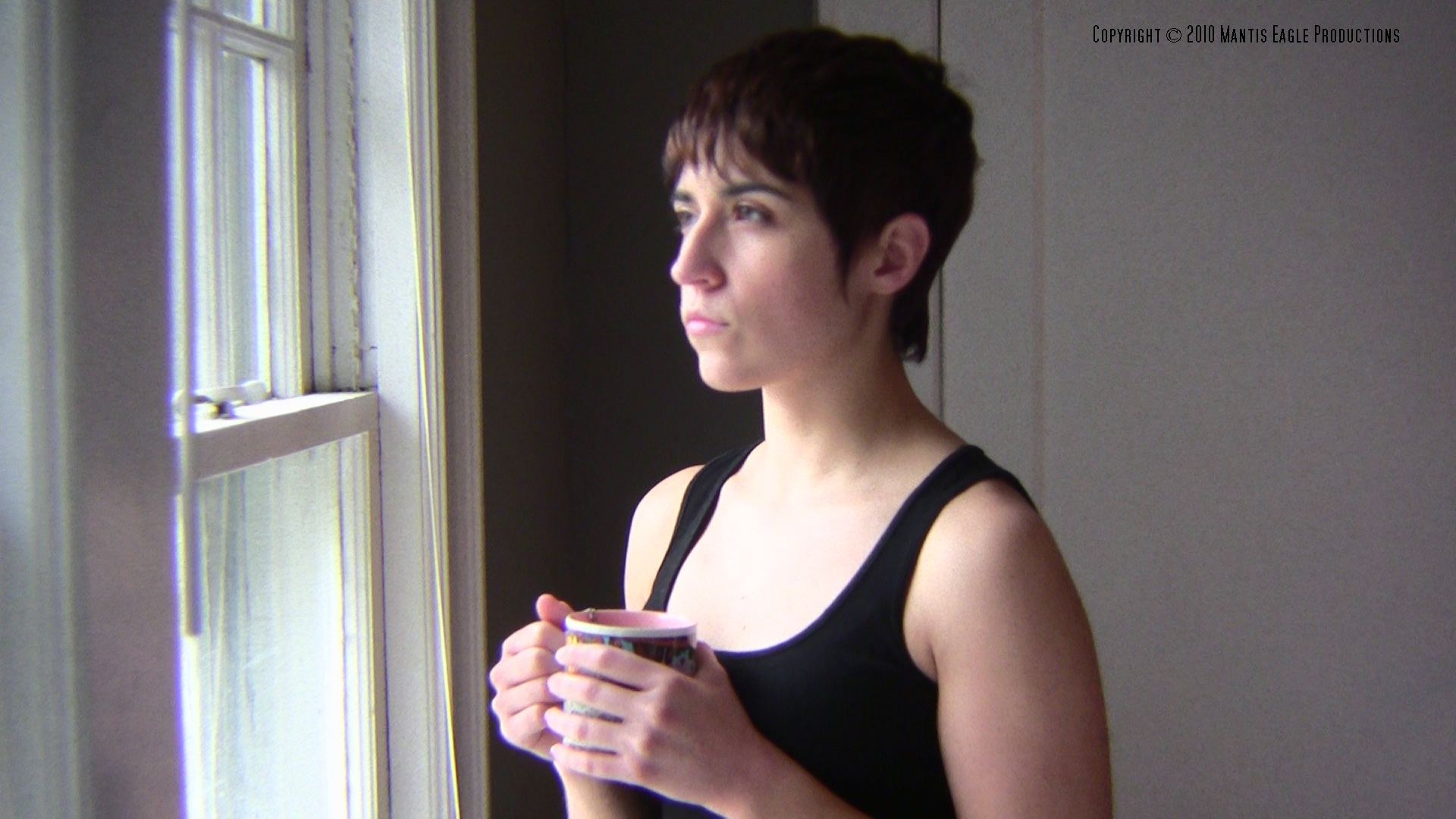 Actress Melissa Navia as Medina in a scene from Love Eterne. Photo by Joseph Villapaz. This photo may be used, modified and published for any purpose, only if the photographer is visibly credited in each instance in which it is used. (See licensing information below.) publication of this photo without proper attribution constitute copyright infringement. For more information on my photos, you can contact me here.